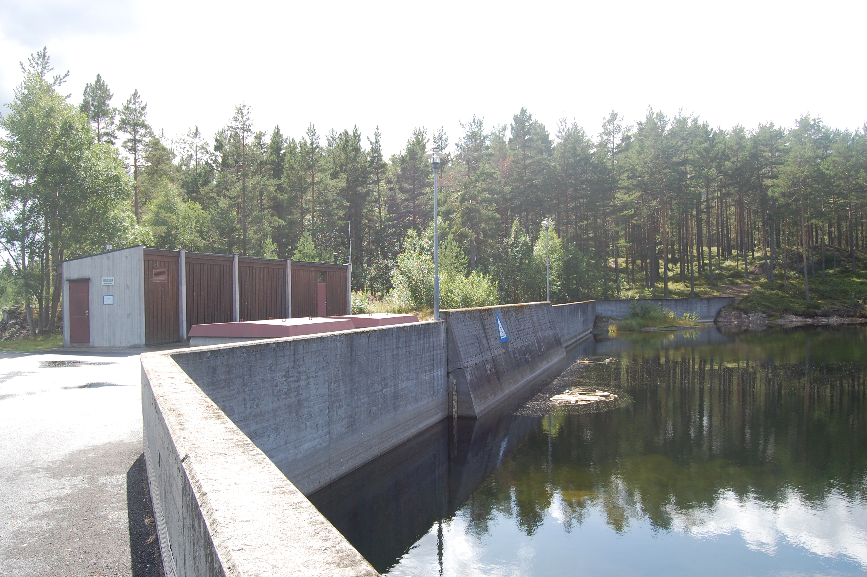 Nisserdam power plant